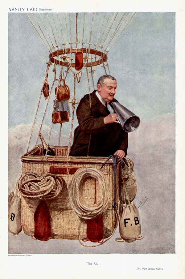 Men of the Day No.1096: Caricature of Mr Frank Hedges Butler (1855 - 1928) founder of the Royal Aero Club. Caption reads: "The Air"